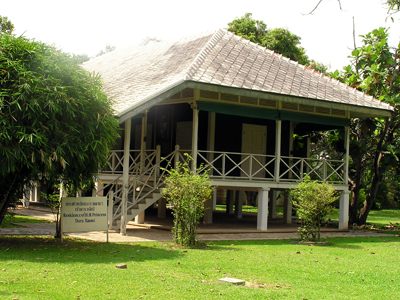 The mansion of H.H. princess Dara Rasmi within Bang Pa-In Palace, Ayutthaya, Thailand